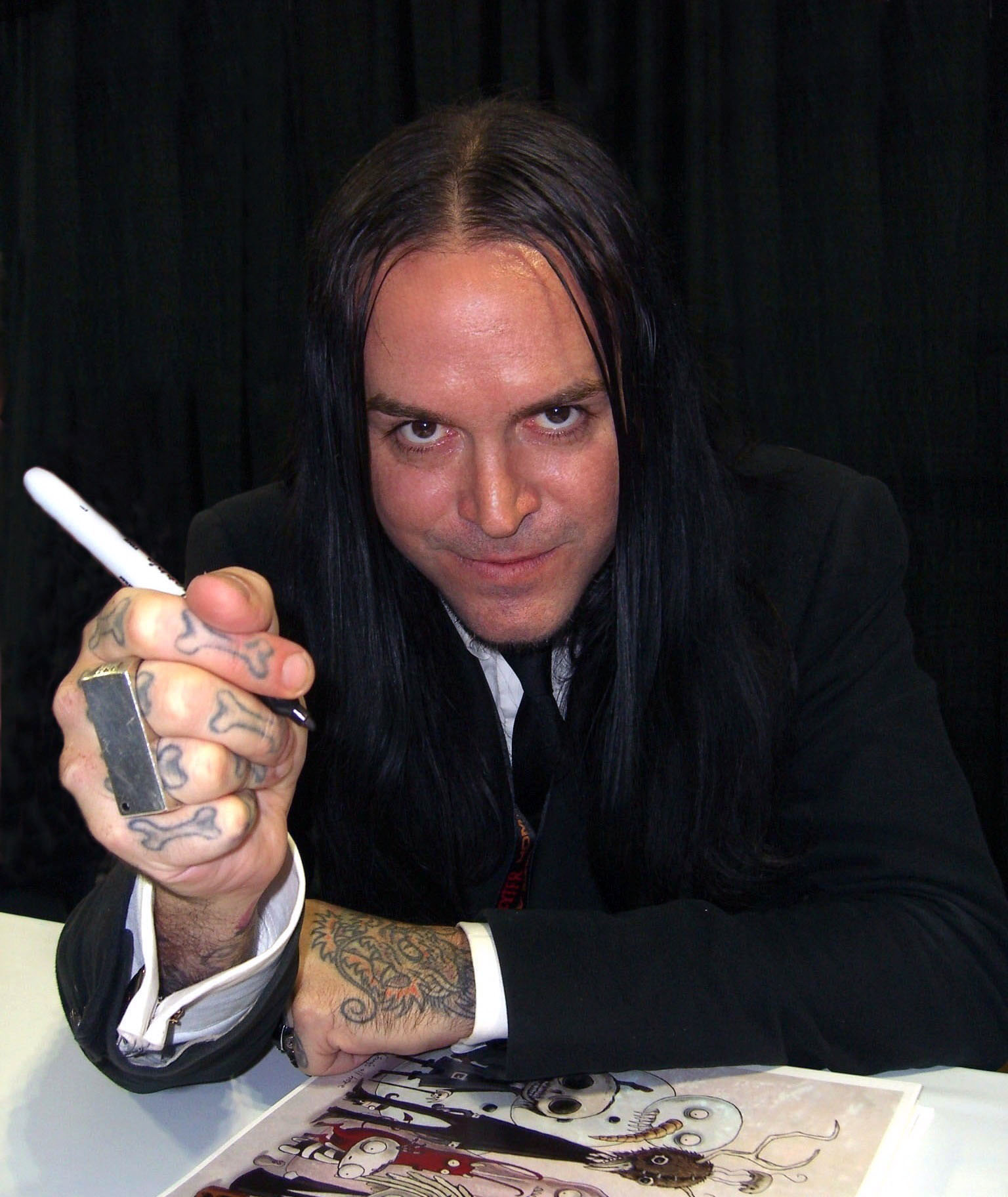 Magician and comics creator Roman Dirge at the New York Comic Con, October 15, 2011. This photo was created by Luigi Novi. It is not in the public domain, and use of this file outside of the licensing terms is a copyright violation.